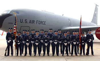 186th Air Refueling Wing - Photo